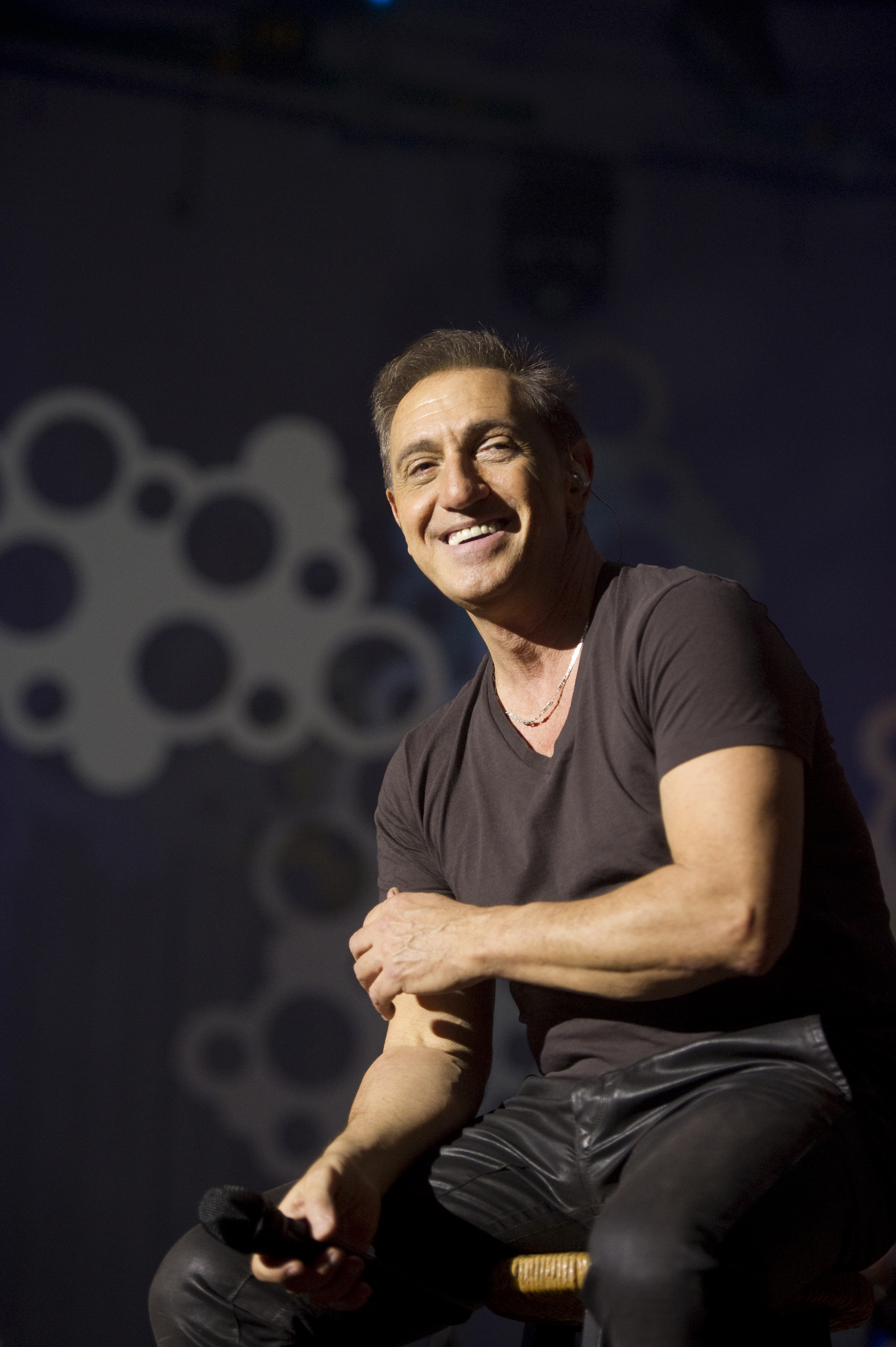 En Primera Fila